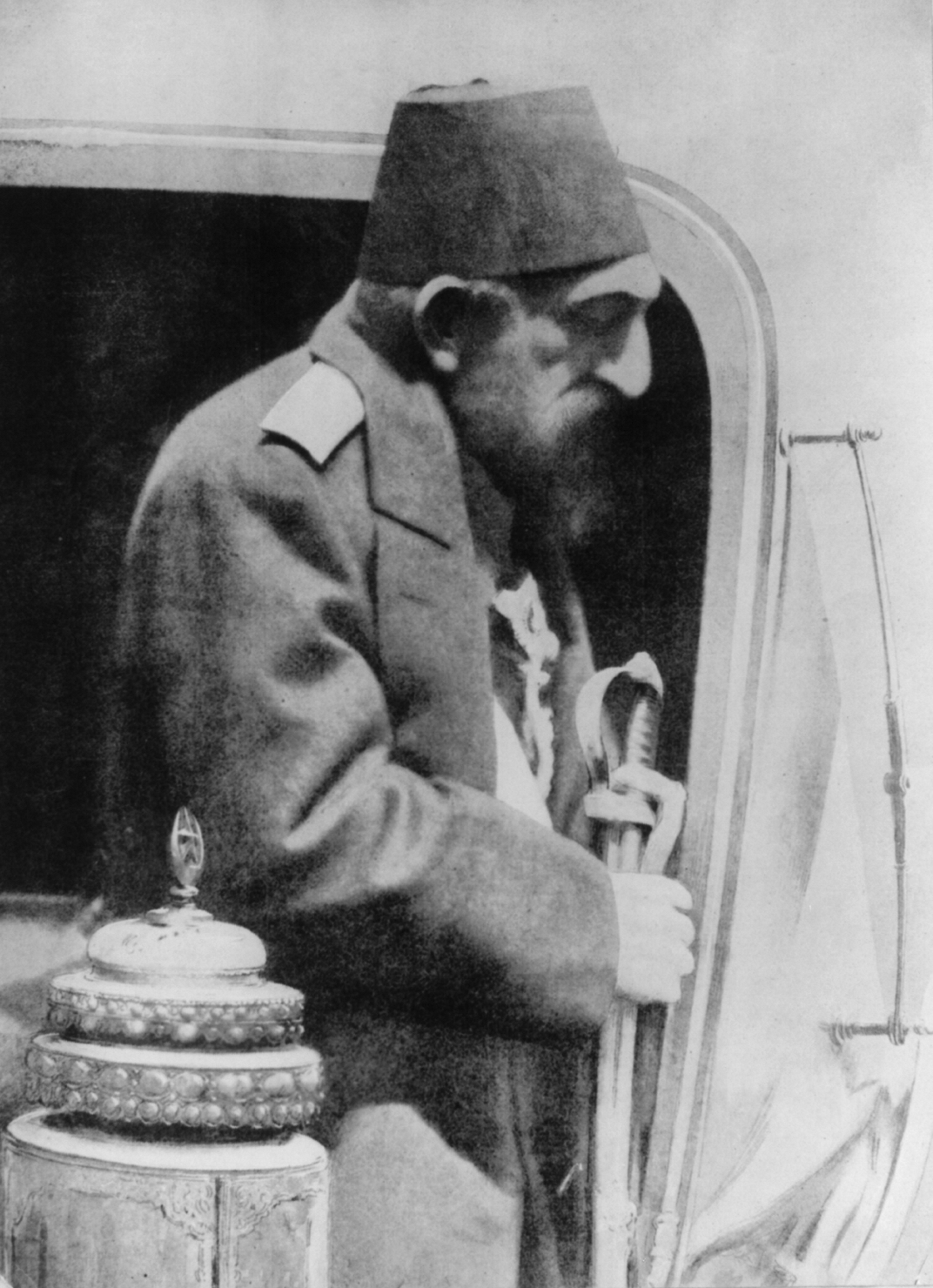 Abdulhamit II, Sultan of the Turks, 1842-1918